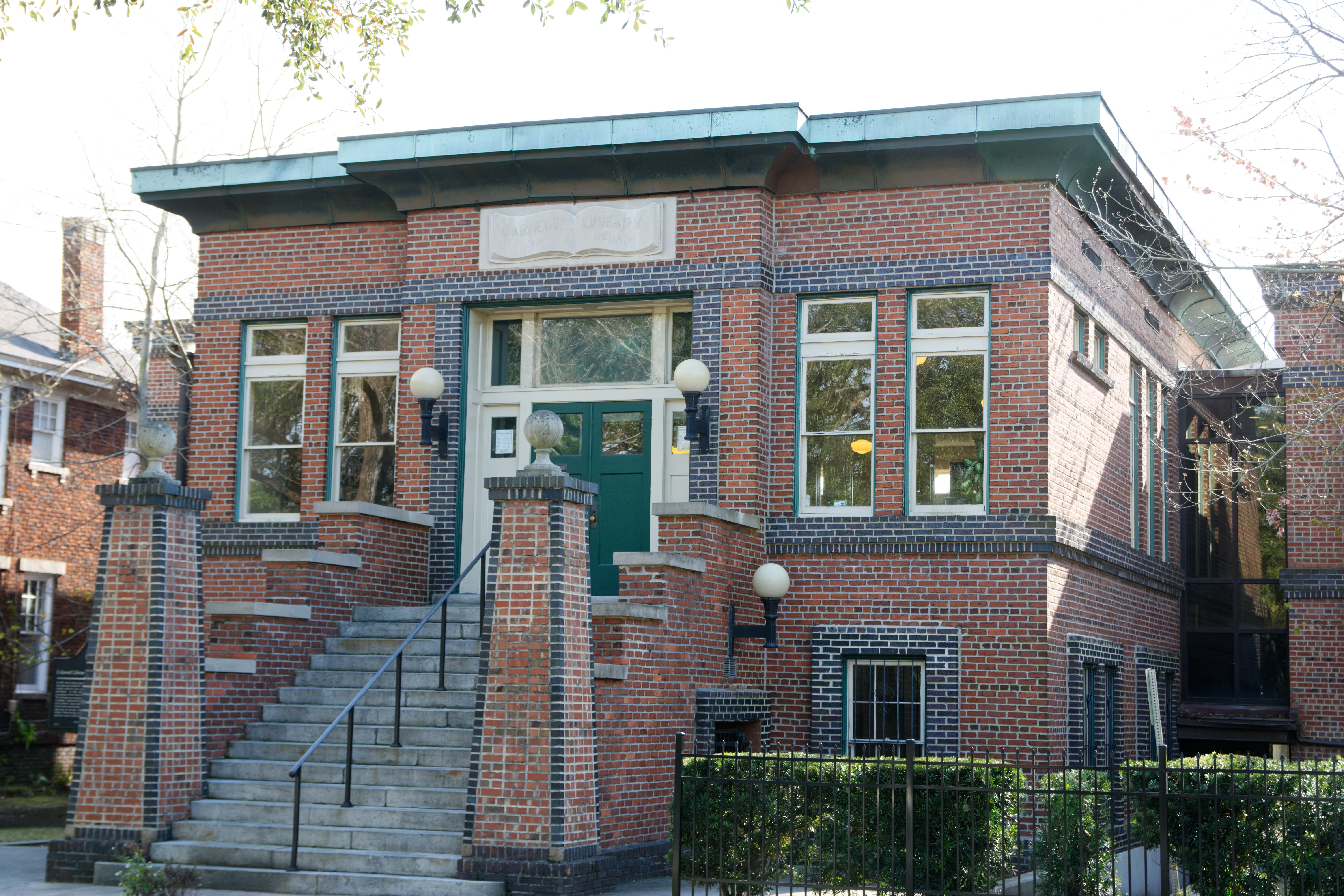 Carnegie Library, now known as Branch B of the Savannah, Georgia, US library, 537 E. Henry St.